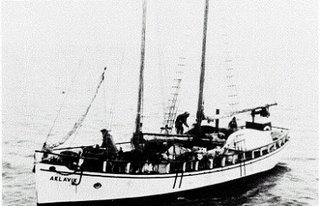 Aklavik, a Hudson's Bay Company cargo vessel, that may have made an unofficial transit of the Northwest Passage in 1937. She sank "a few years later".